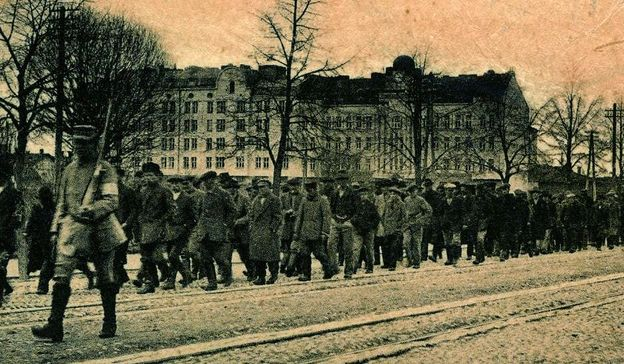 1918 Finnish Civil War: Red Guard prisoners after the Battle of Vyborg, 29 April 1918.